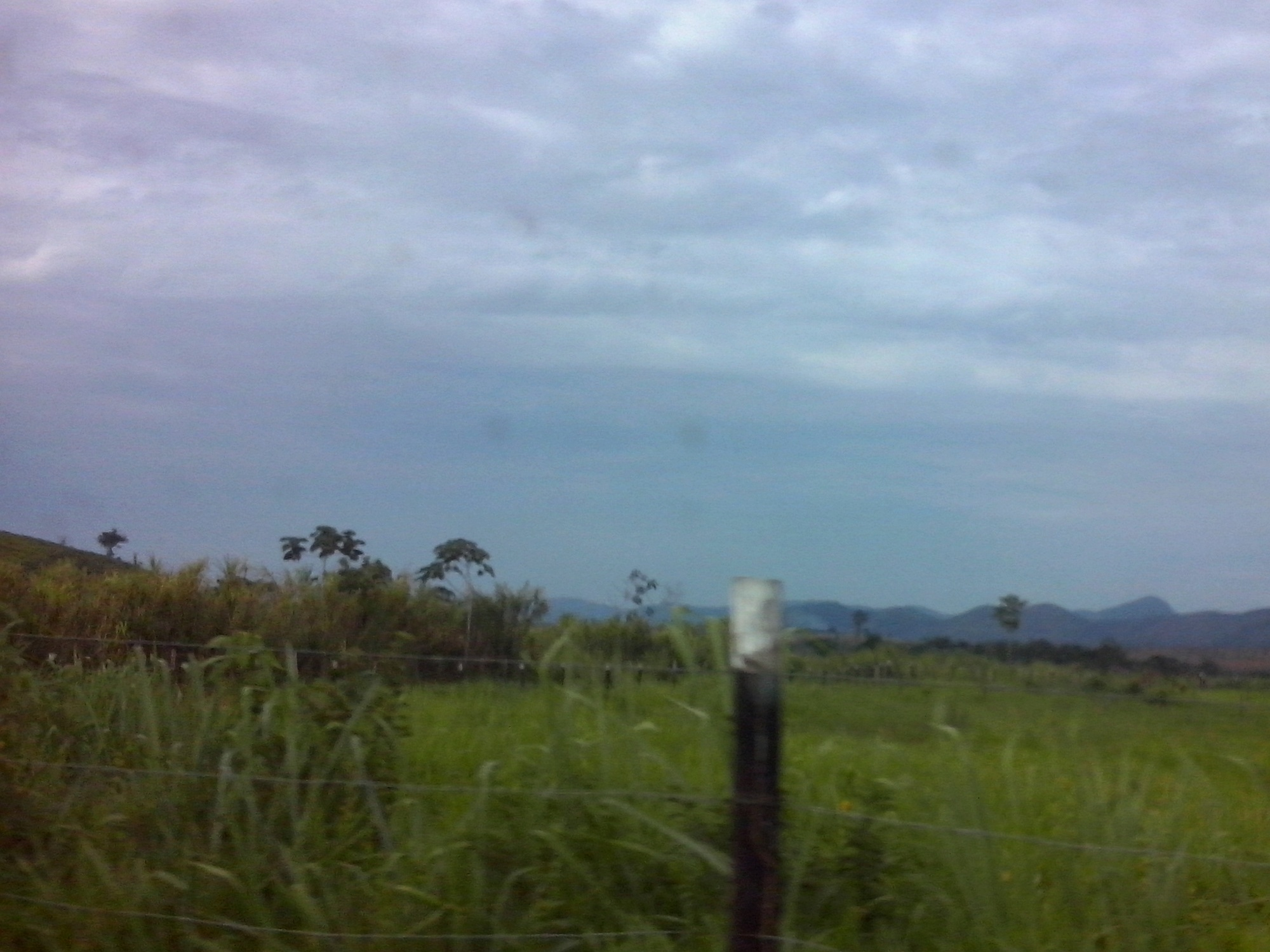 Pastures in Bom Jesus do Galho, Minas Gerais, Brazil.